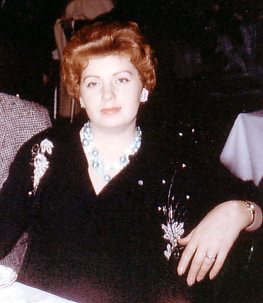 Janice Ann Winblad (1935-1996) at the wedding of Paul John Schwendel I (1941-1996) and Joan Elizabeth Van Deusen (1941- ) on May 27, 1961. Source Richard Arthur Norton (1958- ) archive